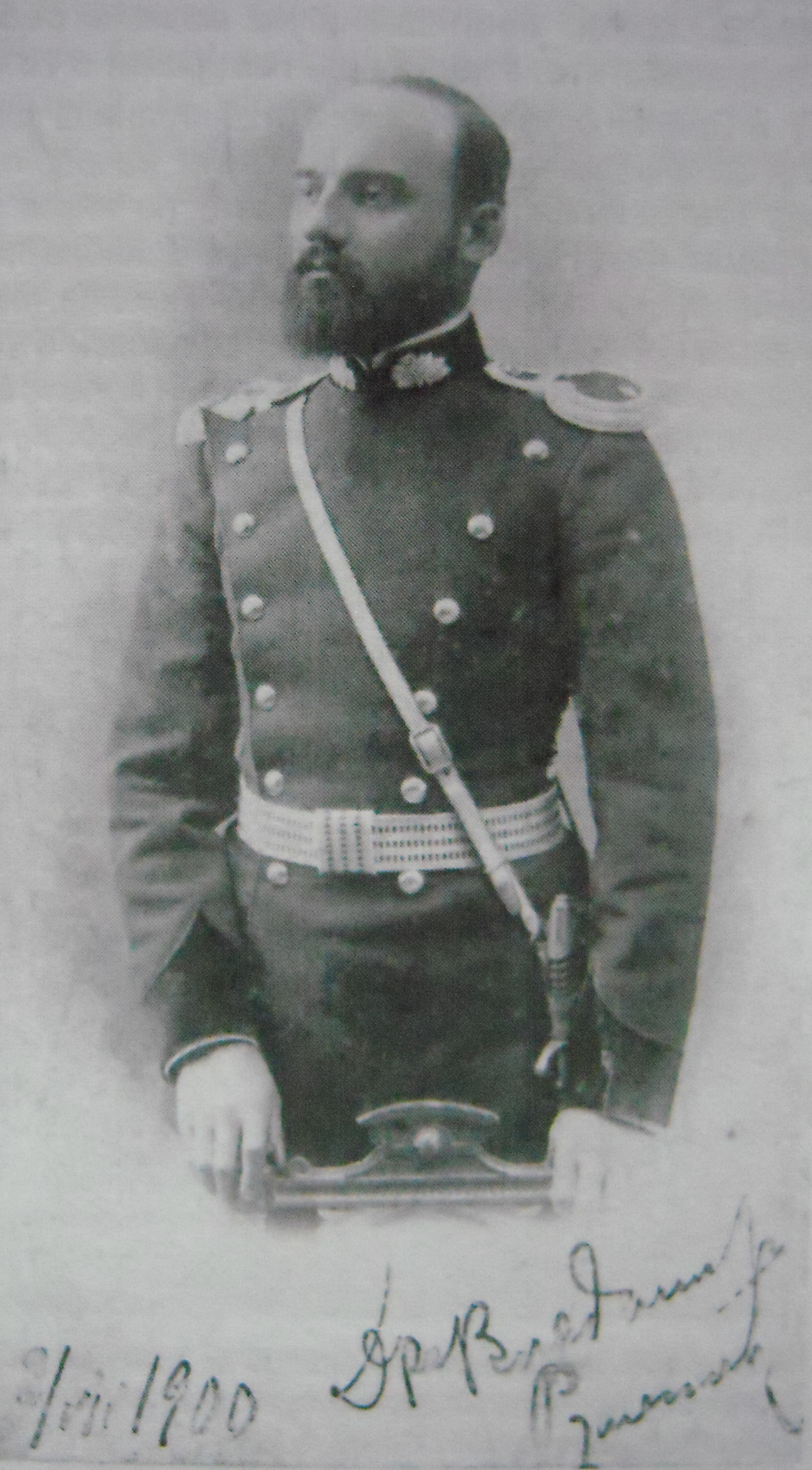 bulgarian revolutionary/ies